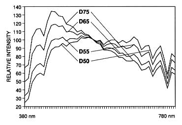 Common standard illuminant spectral power distribution curves.